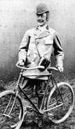 Tobacco card titled: Joe Elvin, Comedian, As The Cycling Bookie 1901